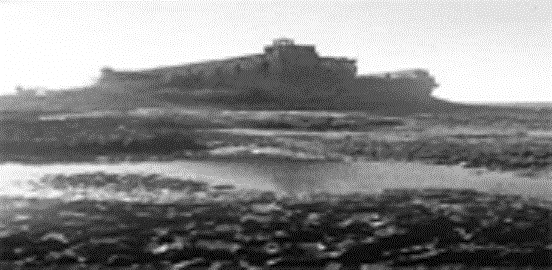 Photograph of Forte de Santo António de Simbor (also known as Fortim-do-Mar, Forte Pani-Kota). This fort was built in 1722 by the Portuguese on an islet at the mouth of a river in the bay of Simbor, some 25 km east of Diu, India. This fort is often confused with the better-known fort, also called Fortim-do-Mar or Pani-Kota, just off Diu Fort The photo is not dated but was taken very likely at the turn of the 20th century. The very small original photo has been enlarged. Old photos of this remote and little-known fort are rare.